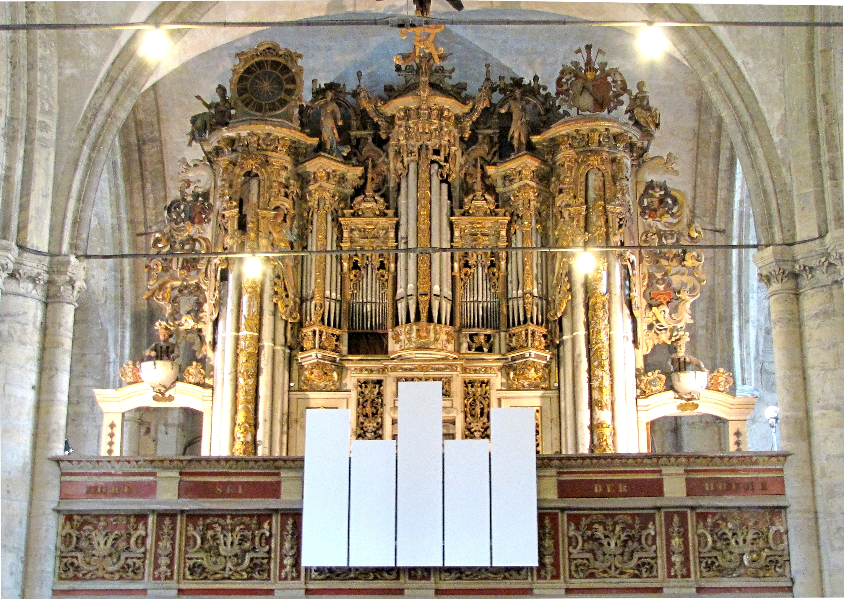 View of Organ front in St. Martini, Halberstadt, with mock-up of Rückpositiv (to be reconstructed)